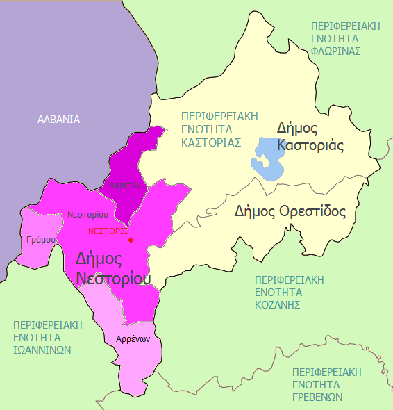 Municipal Units of Nestorio, Kastoria peripheral unit, Western Macedonia